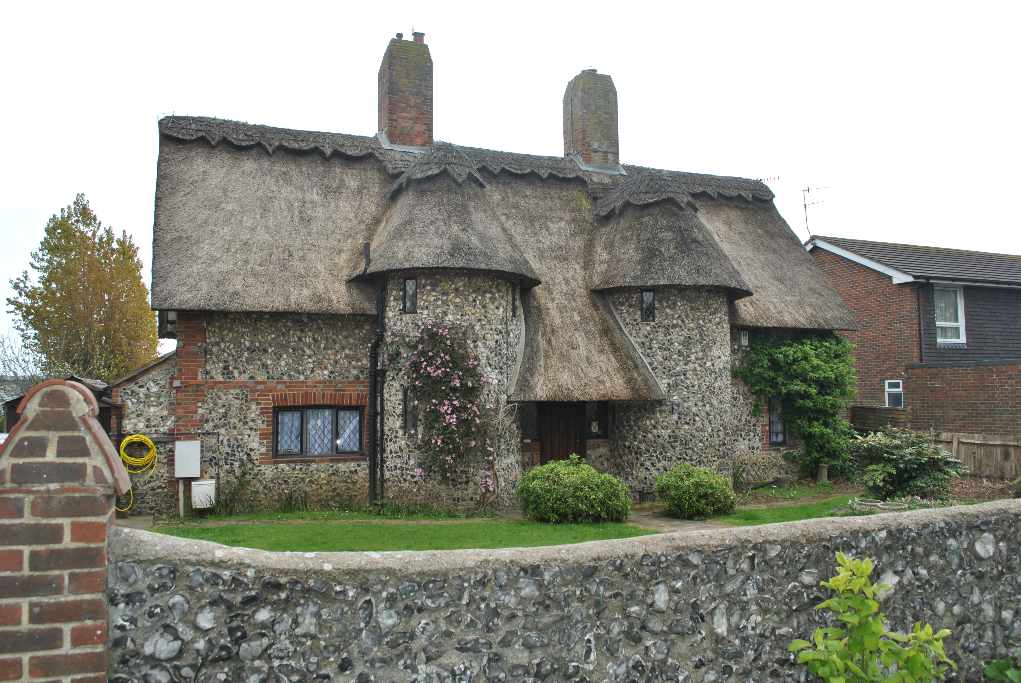 Little Thatch, Belgrave Road, Seaford, 2017, Originally published in Queer Places, Vol. 2.1: Retracing the Steps of LGBTQ people around the World